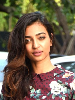 Radhika Apte at Phobia media meet